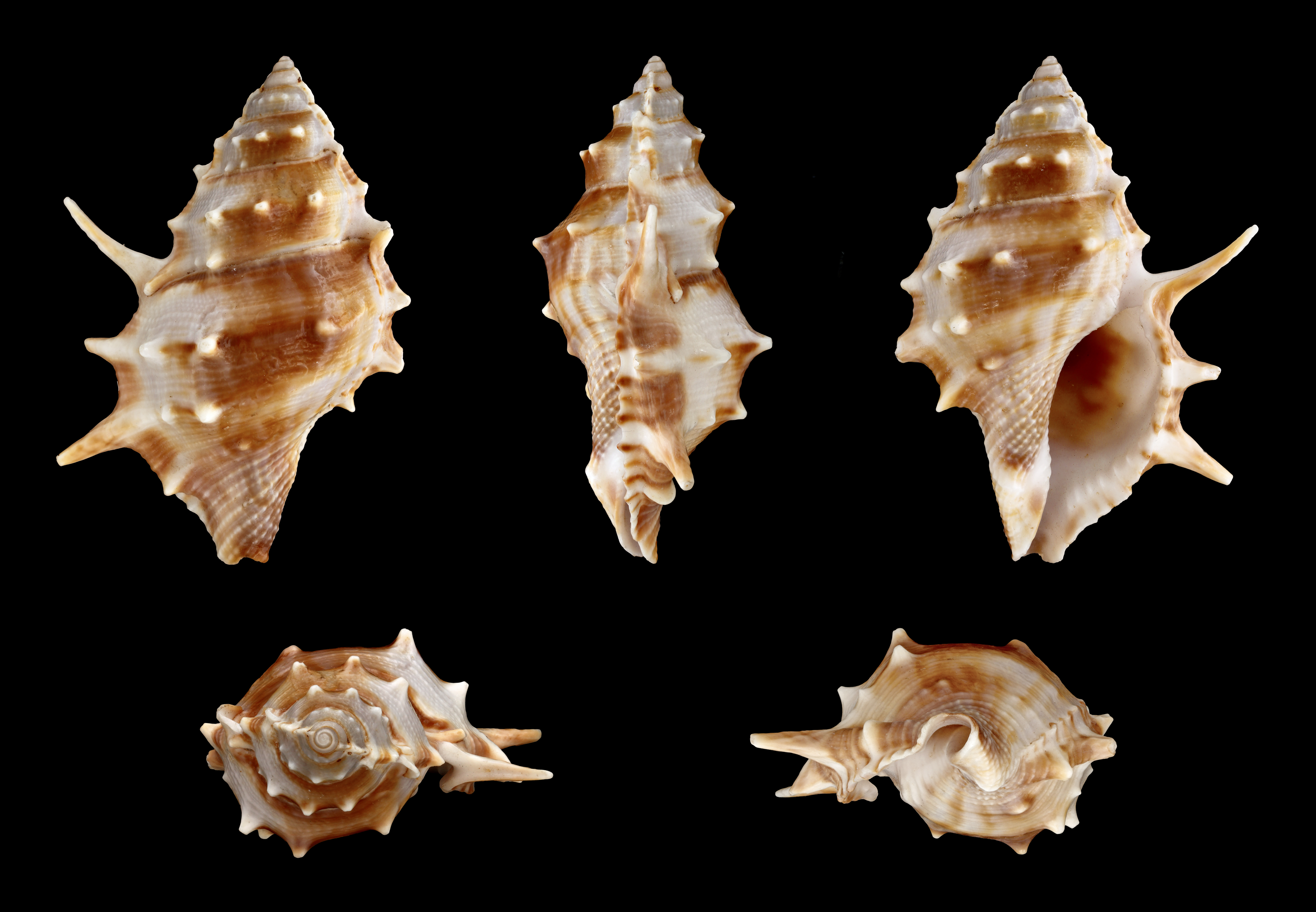 Spiny Frog Shell; Length 6.0 cm; Originating from the Philippines; Shell of own collection, therefore not geocoded. Dorsal, lateral (right side), ventral, back, and front view.